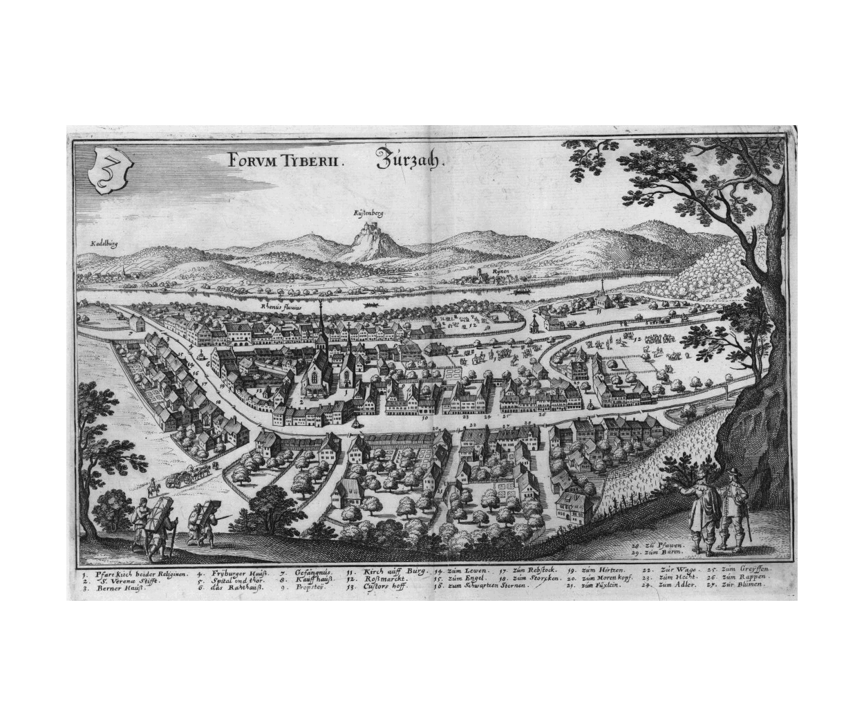 This is a scan of the historical document